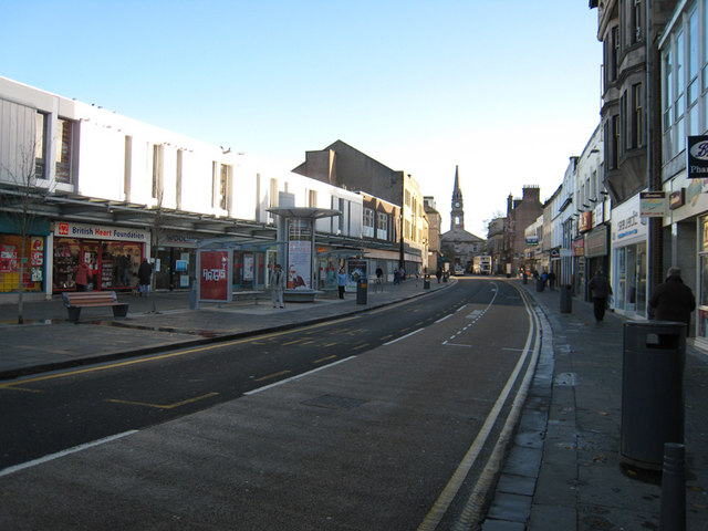 Dumbarton High Street Dumbarton High Street looking East new traffic regs introduced